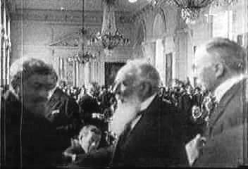 The negotiations before signing the Treaty of Trianon in Versailles, 1920. The treaty fixed the new common borders of Hungary with Austria, Czechoslovakia, Romania, and Yugoslavia. Nikola Pašić (with long beard), is in the middle of the picture. Warning!!! Count Albert Apponyi not was in the Trianon Palace This is source movie This picture, of course, not be included in Albert Apponyi, because there was no signature event, he is resigned. This image of Nikola Pašić (1845 - 1926) depicts the future prime minister of Yugoslavia.